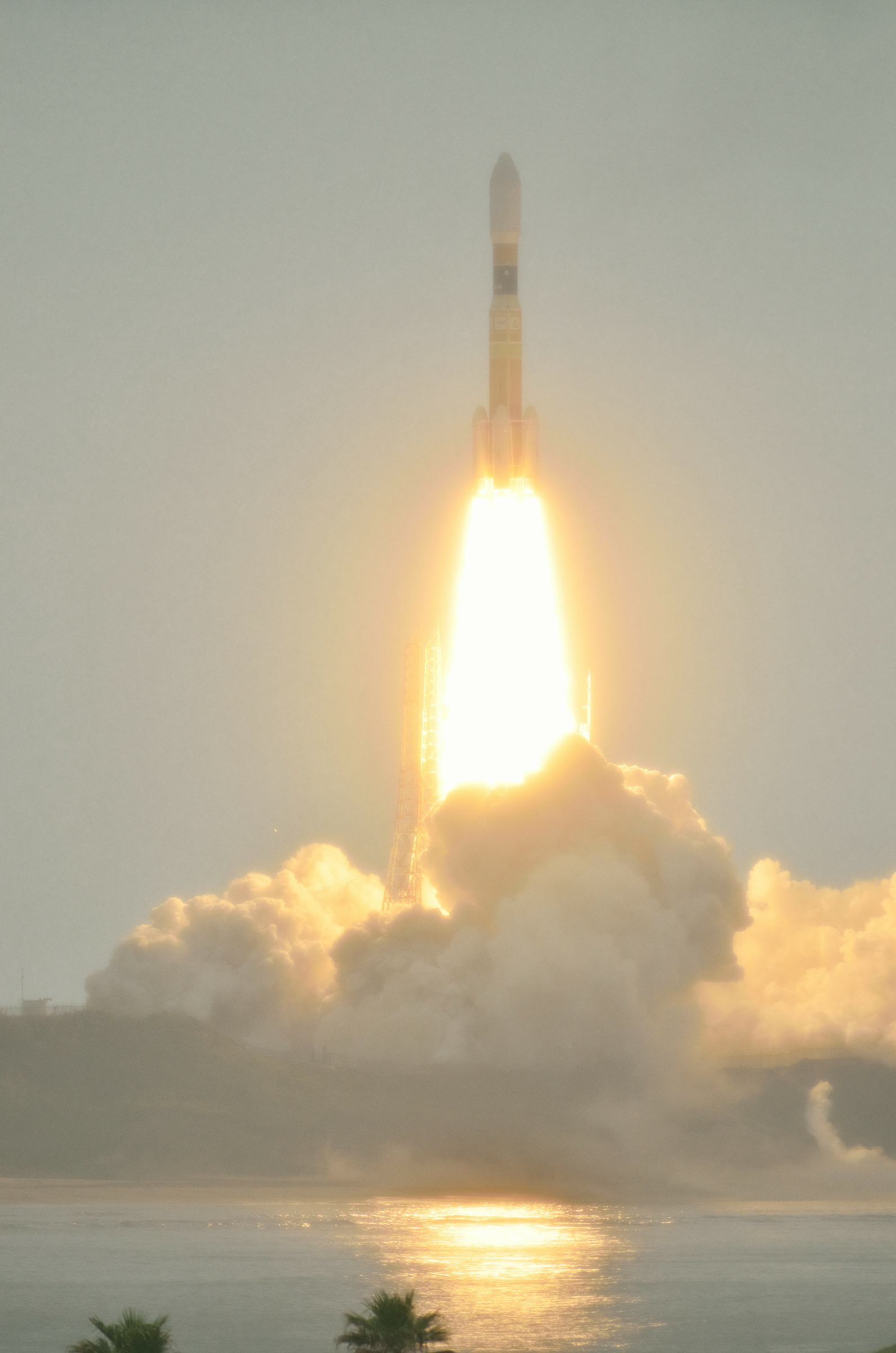 H-IIB Launch Vehicle Flight 3, launching the H-II Transfer Vehicle "KOUNOTORI 3" (HTV3).